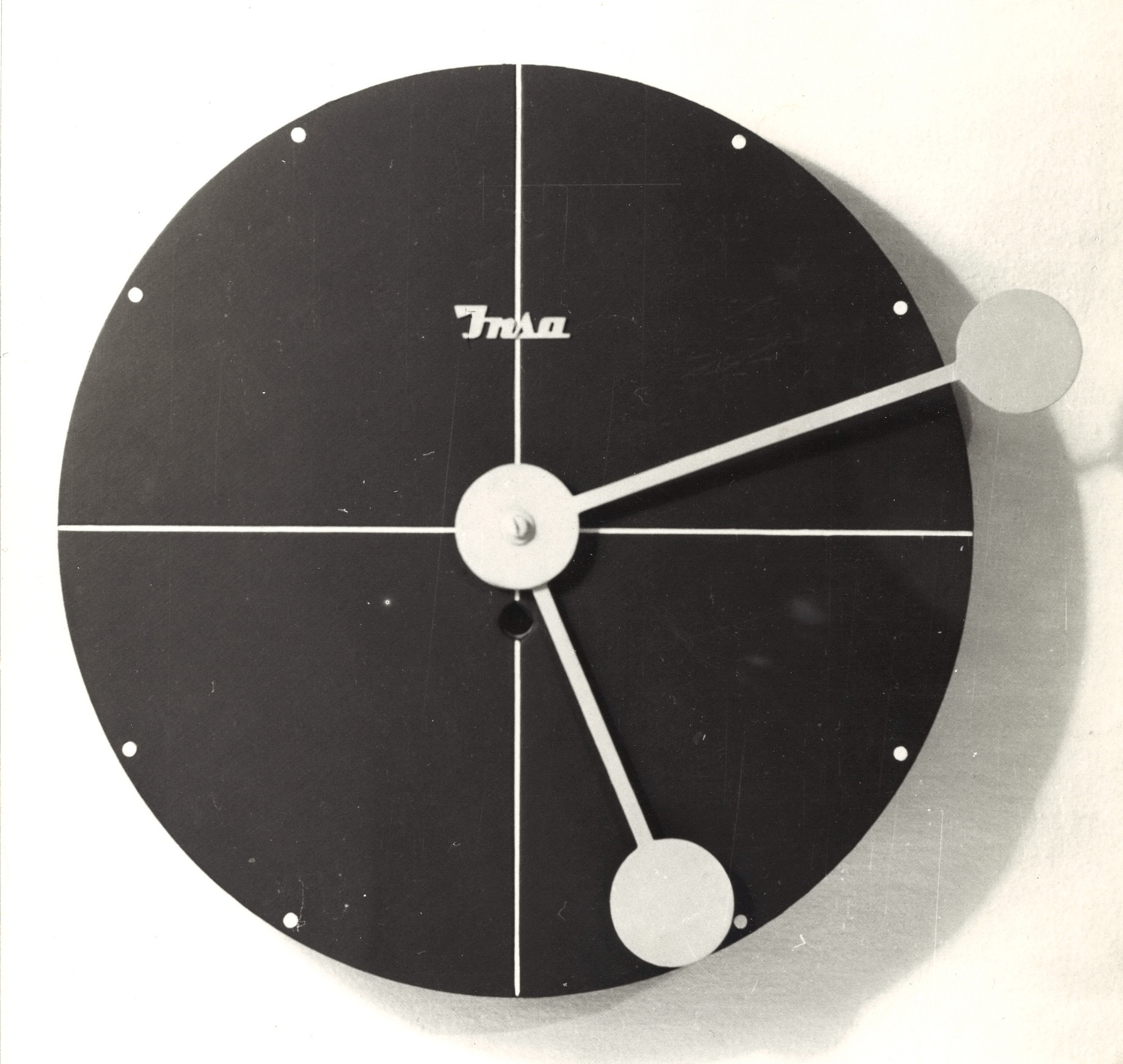 Wall clock INSA made in 1960. It was designed by Gojko Varda, who was awarded for this model with the Jacques Viénot plaque at the Paris Exhibition in 1963